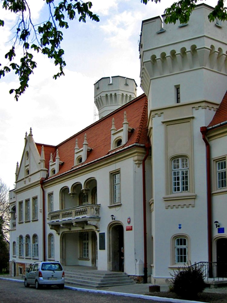 Jaslo Palace